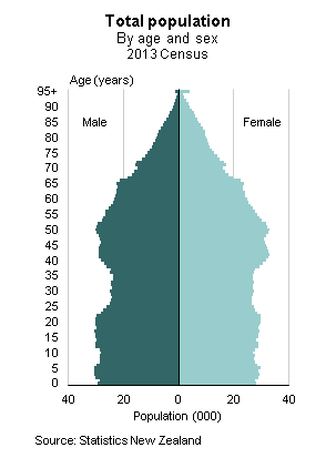 2013 New Zealand census - population pyramid (total population by age and sex)